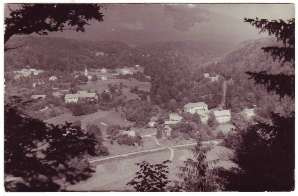 Postcard of Ovsiše